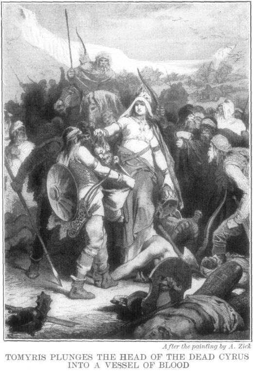 Queen Tomyris plunges the head of the dead Cyrus into a vessel of blood, by Alexander Zick.